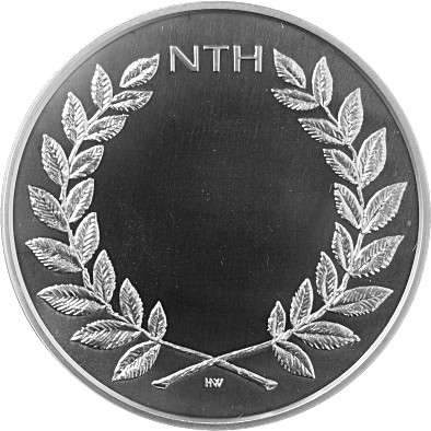 Reverse of the Onsager medal, awarded annually by The Norwegian University of Science and Technology, to an internationally recognized scientist of. The medal shows the Norwegian Nobel Prize Laureate Lars Onsager